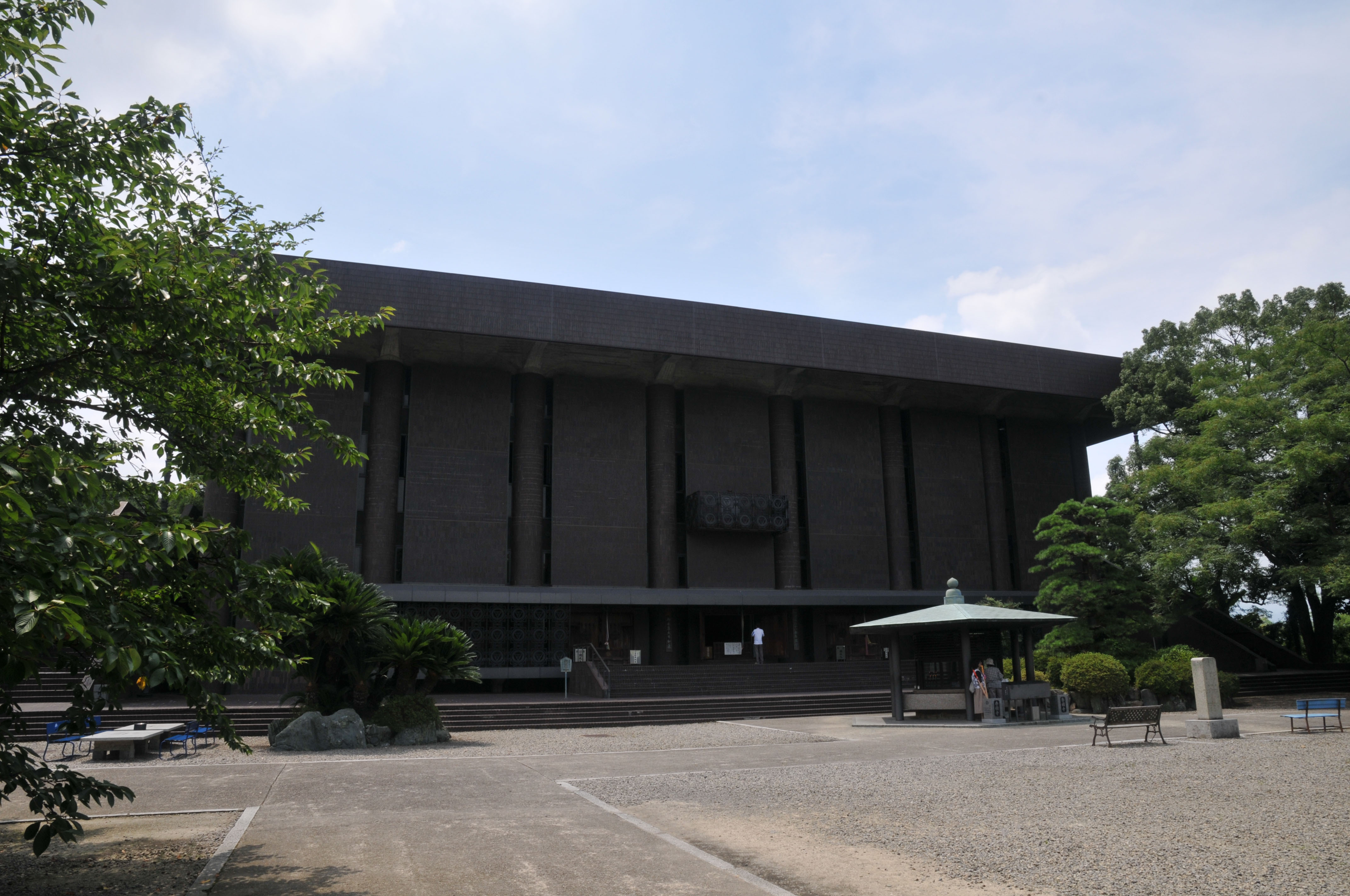 Daiseidō, Kōon-ji